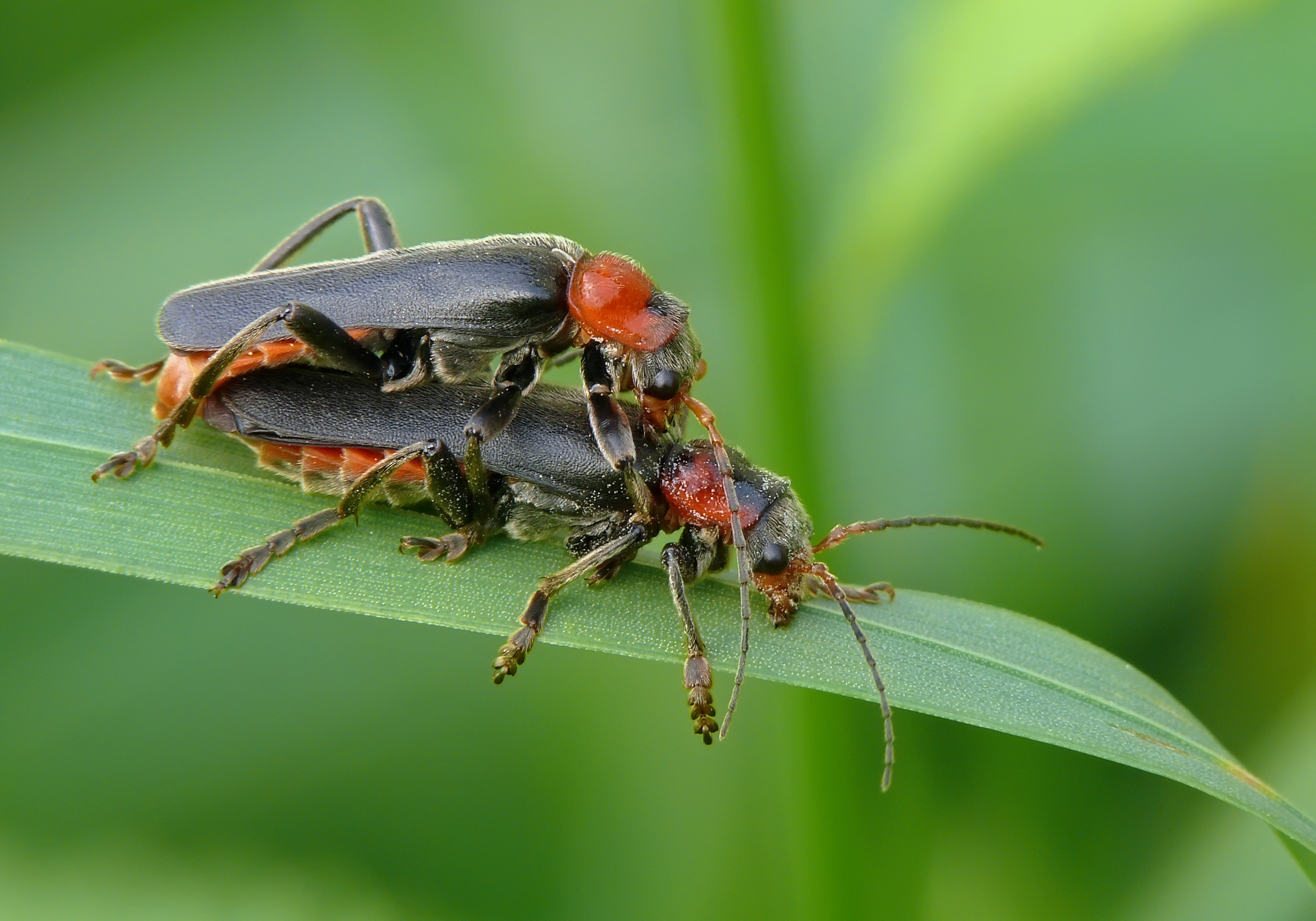 Soldier beetles (Cantharis fusca). Mating.